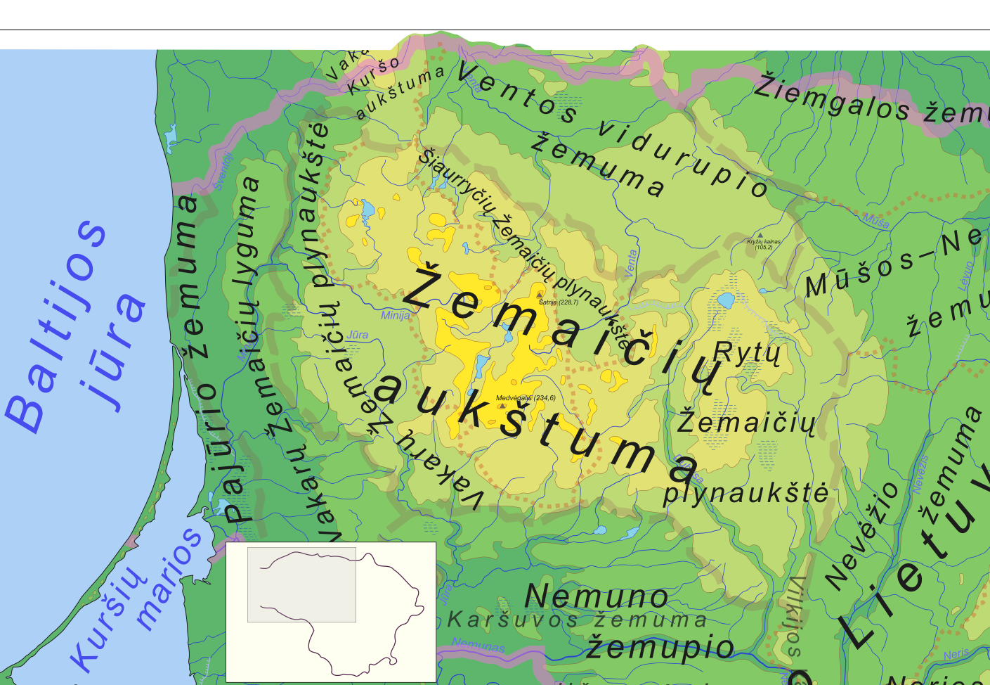 Map of Žemaičiai Highland (Lithuania) Created from Image:LithuaniaPhysicalMap-lt.svg